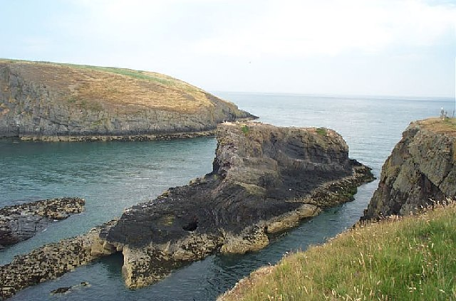 Carreg Lydan and Cardigan Island. On the Cardigan Heritage Coast, Cardigan Island is a little part of that coastline lying just offshore from a rocky promontory near Gwbert-on-Sea, three miles north of the town of Cardigan. It is an excellent place for dolphin and seal watching.